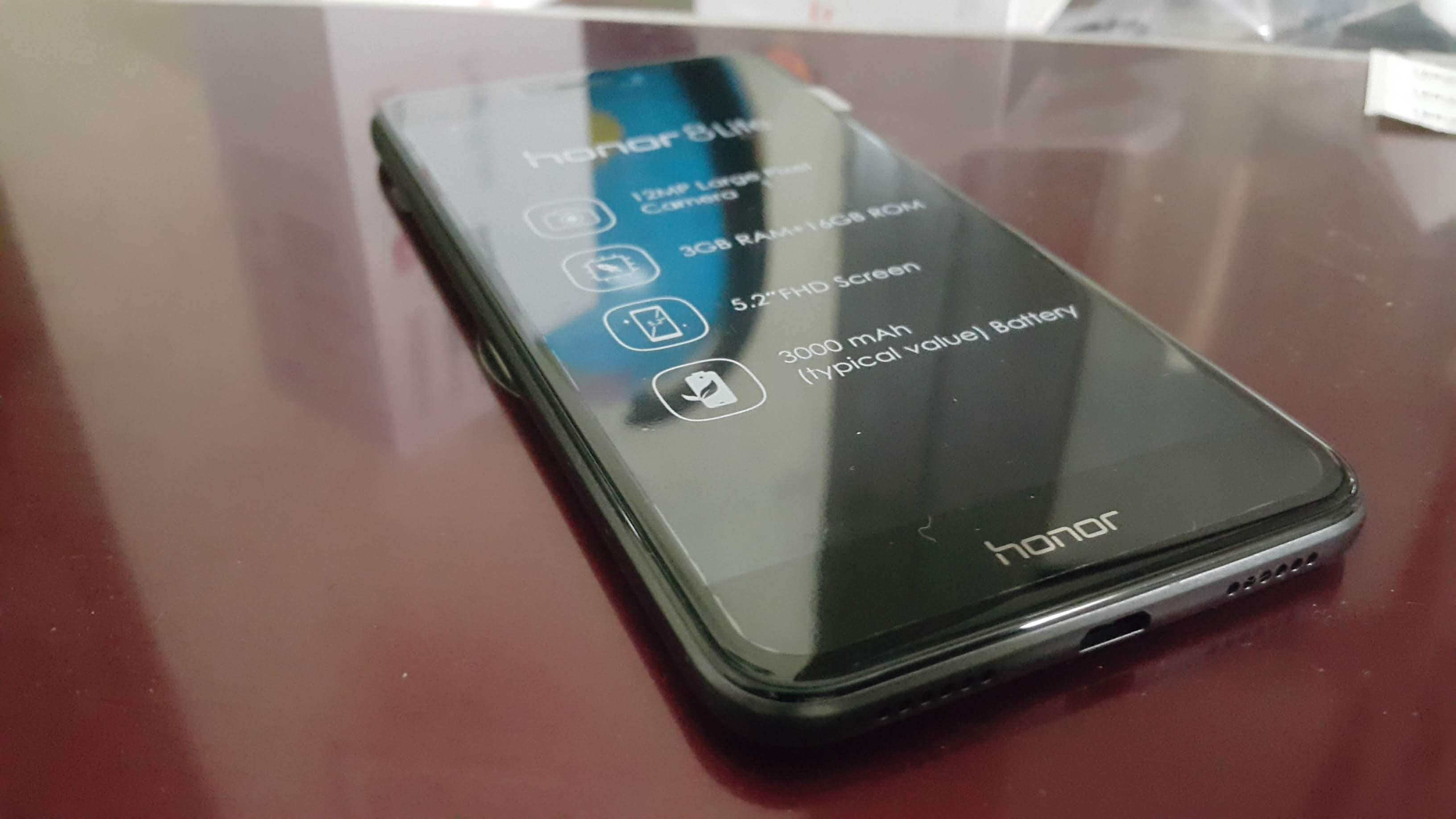 Image of Huawei Honor 8 Lite